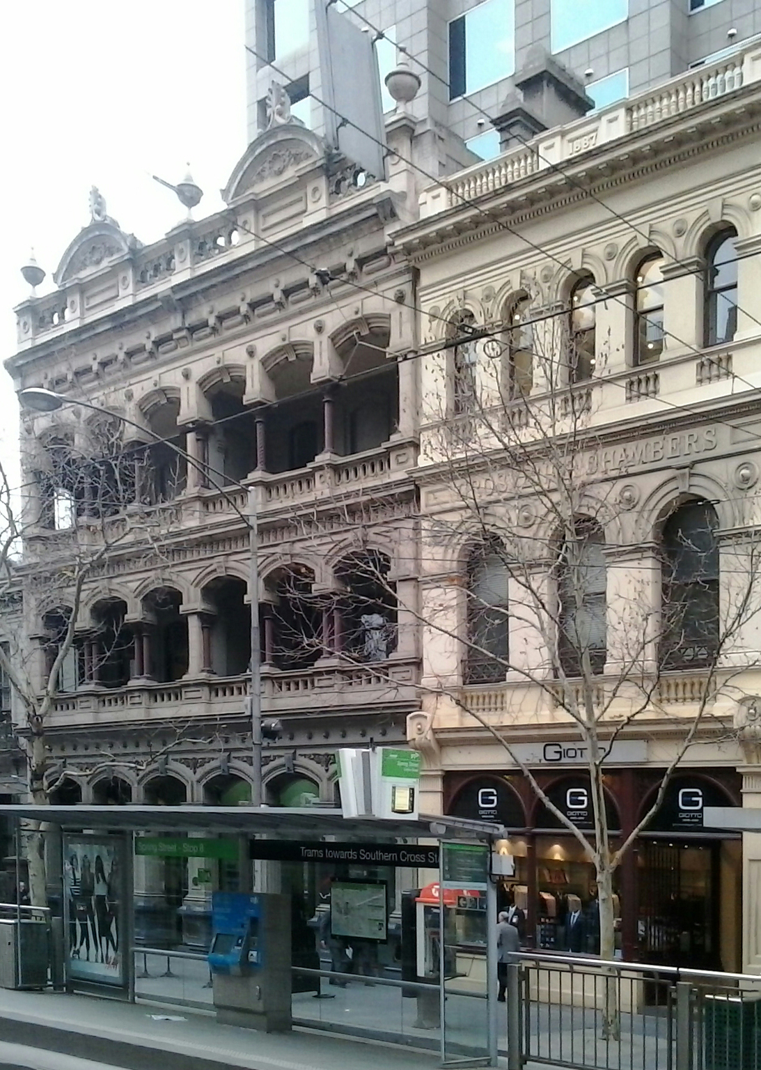 Grosvenor Chambers, Collins Street, Melbourne, Victoria, Australia